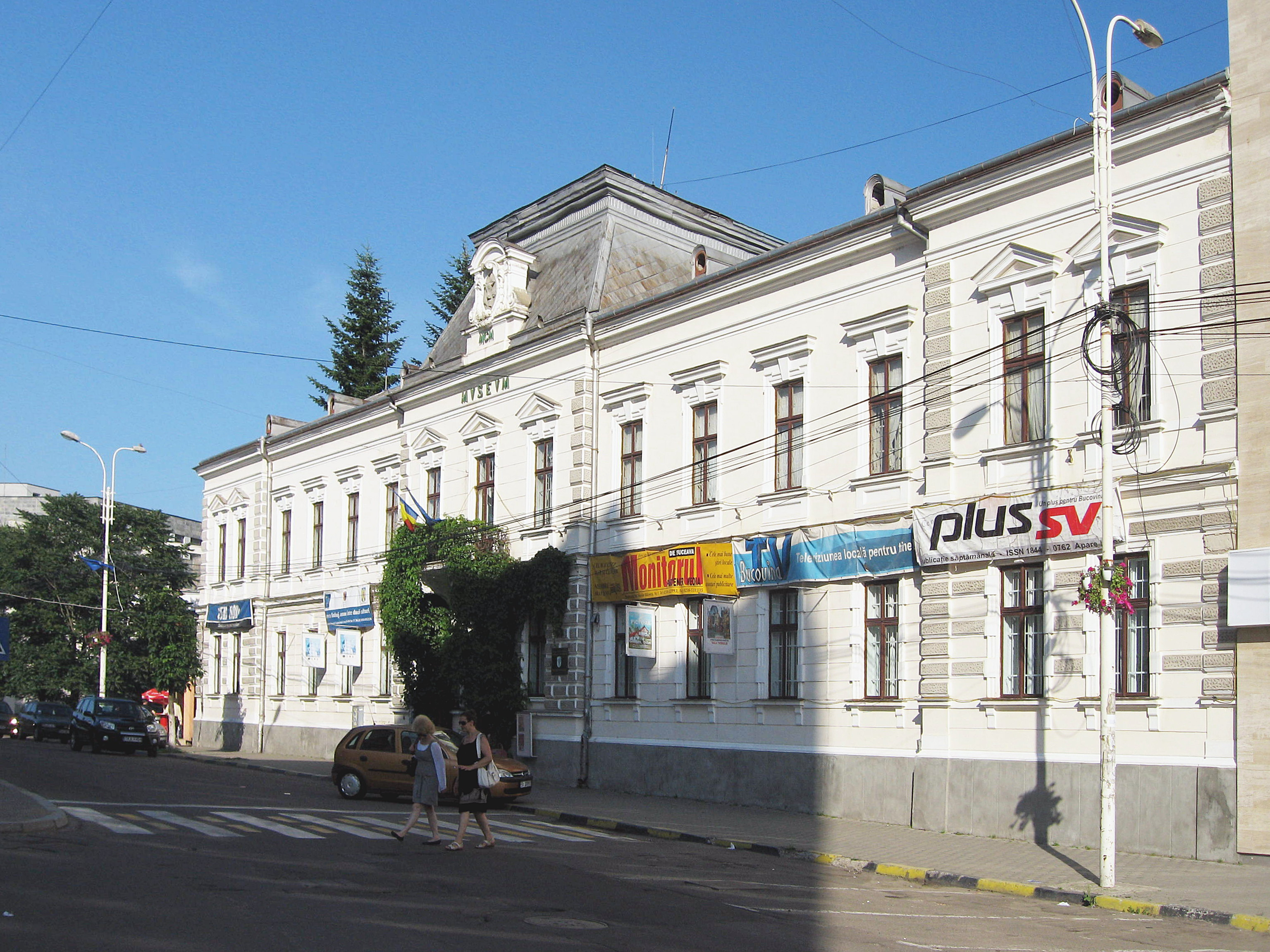 Bukovina Museum in Suceava / Suceava History Museum.